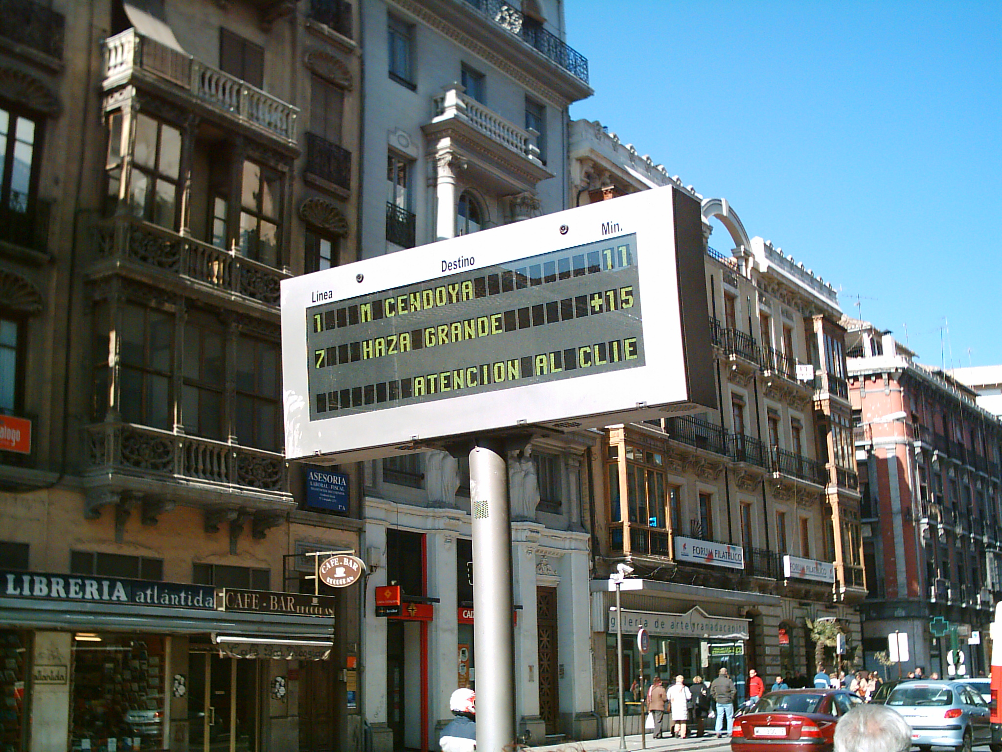 Waitting time for buses in Granada city center (Spain)